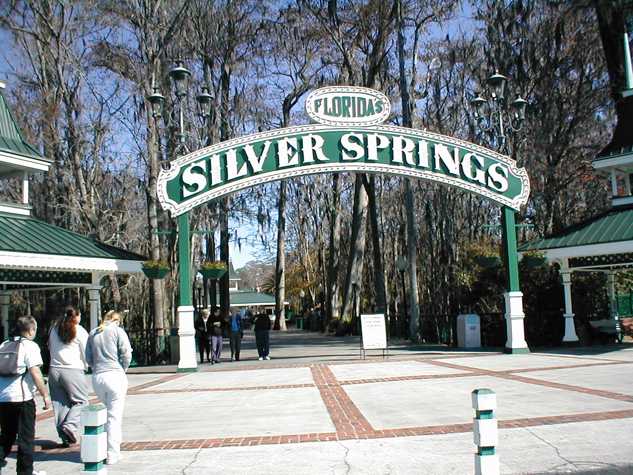 Entrance gate for Silver Springs, in Ocala Florida.